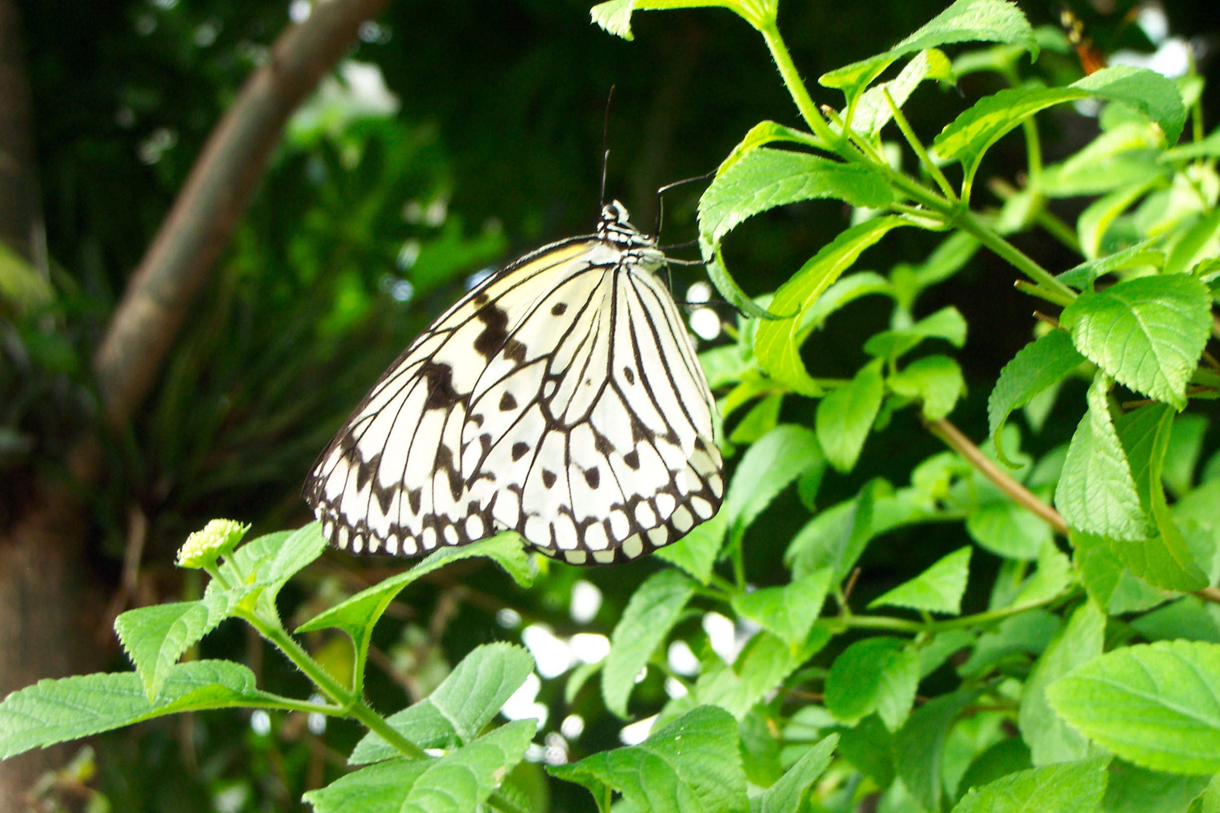 Paperkite Butterfly at Tennessee Aquarium, Chattanooga, TN, USA.